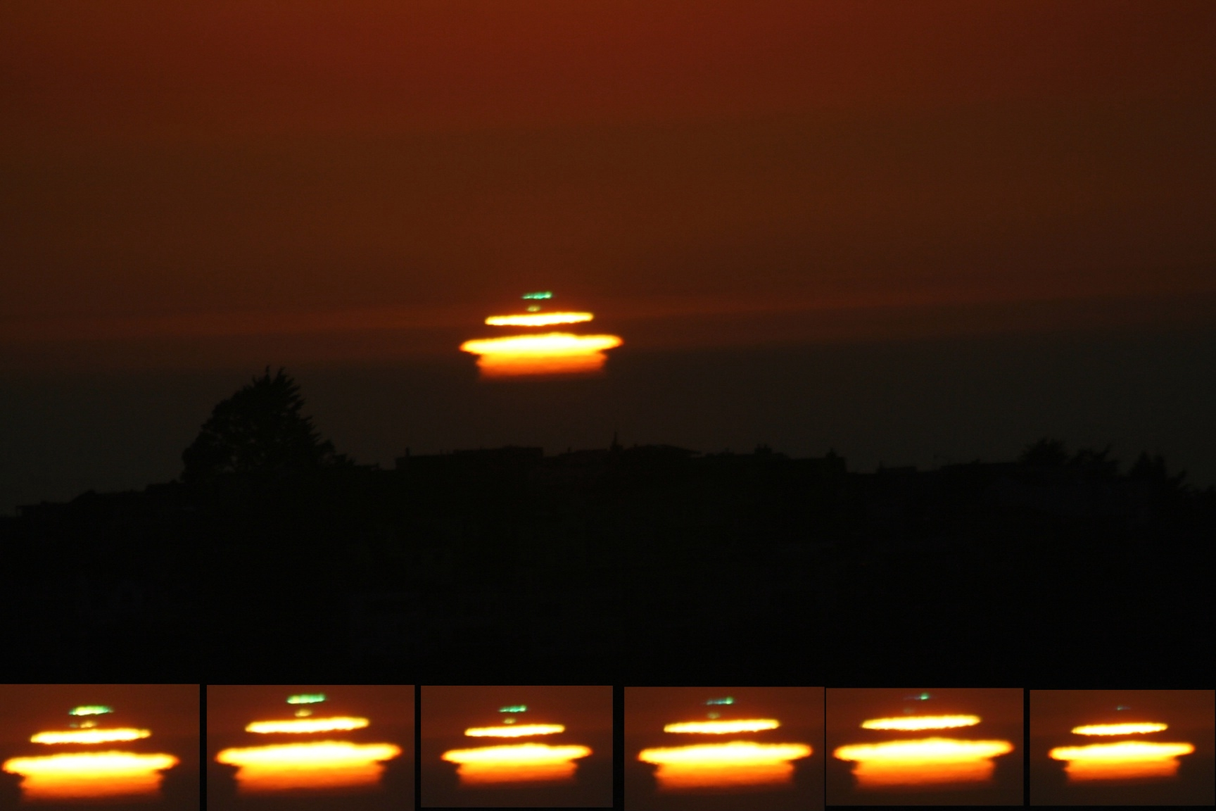 Green flashPhotograped in San Franciso on September 17 en:2006. This sunset "was a very complex mock mirage. It seemed that the sun could not get enough of playing with [thermal air layers over the Pacific Ocean] and produced a different shape every moment."